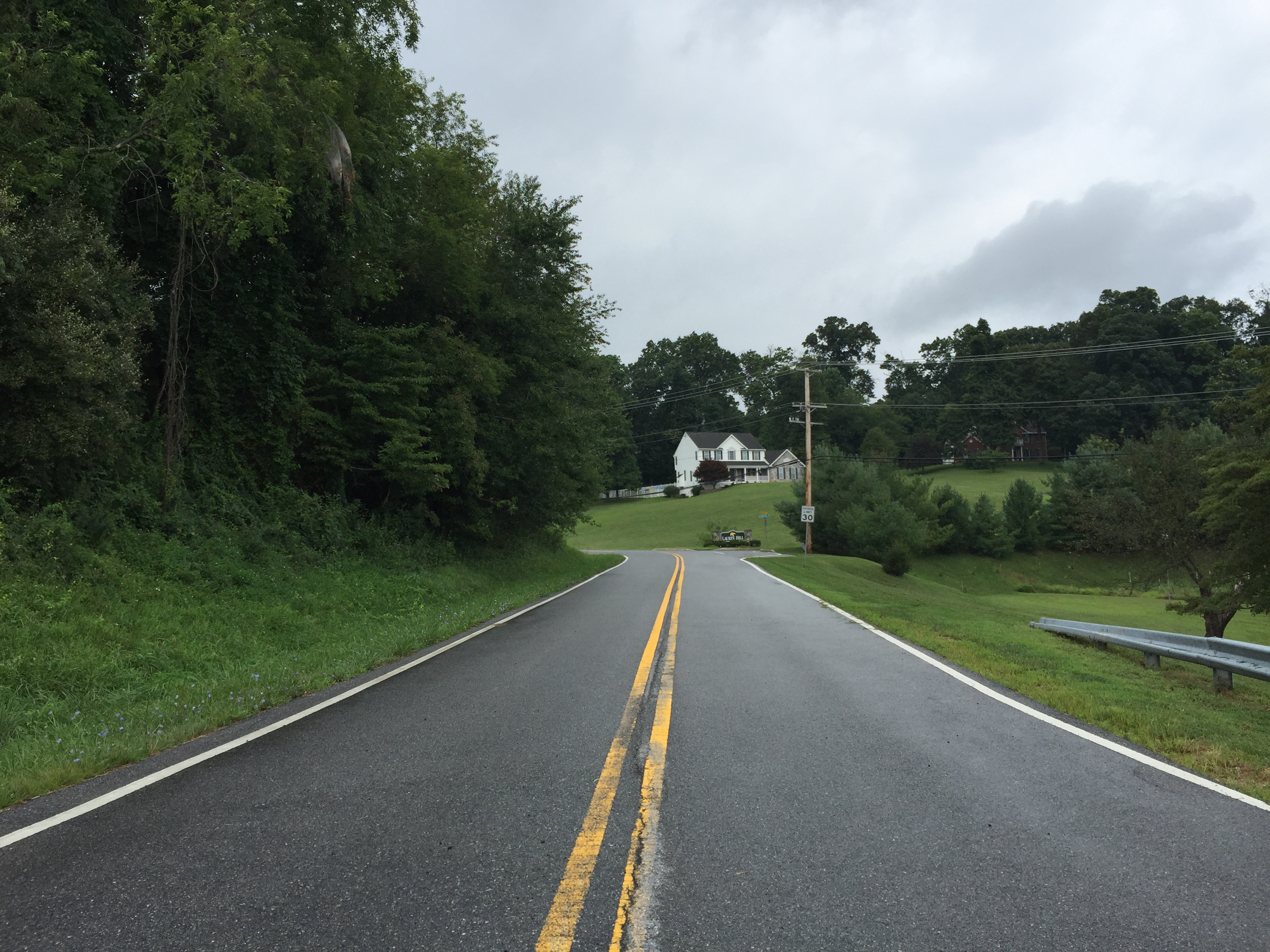 View south along Maryland State Route 879 (Old Gamber Road) at Maryland State Route 91 (Gamber Road) in Finksburg, Carroll County, Maryland